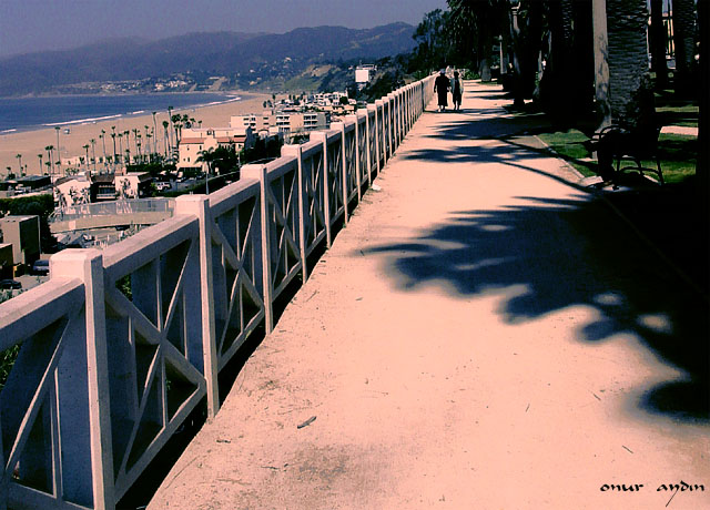 Palisades Park and the beach — in Santa Monica, California.